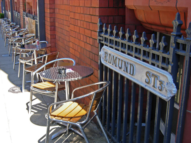 Outside Bushwackers One consequence of the legislation prohibiting smoking inside pubs and clubs has been a proliferation of external seating. This line up on the south side of Edmund Street belongs to Bushwackers, described as a 'bar-restaurant-club', which occupies the lower ground floor and basement of Exchange Building.